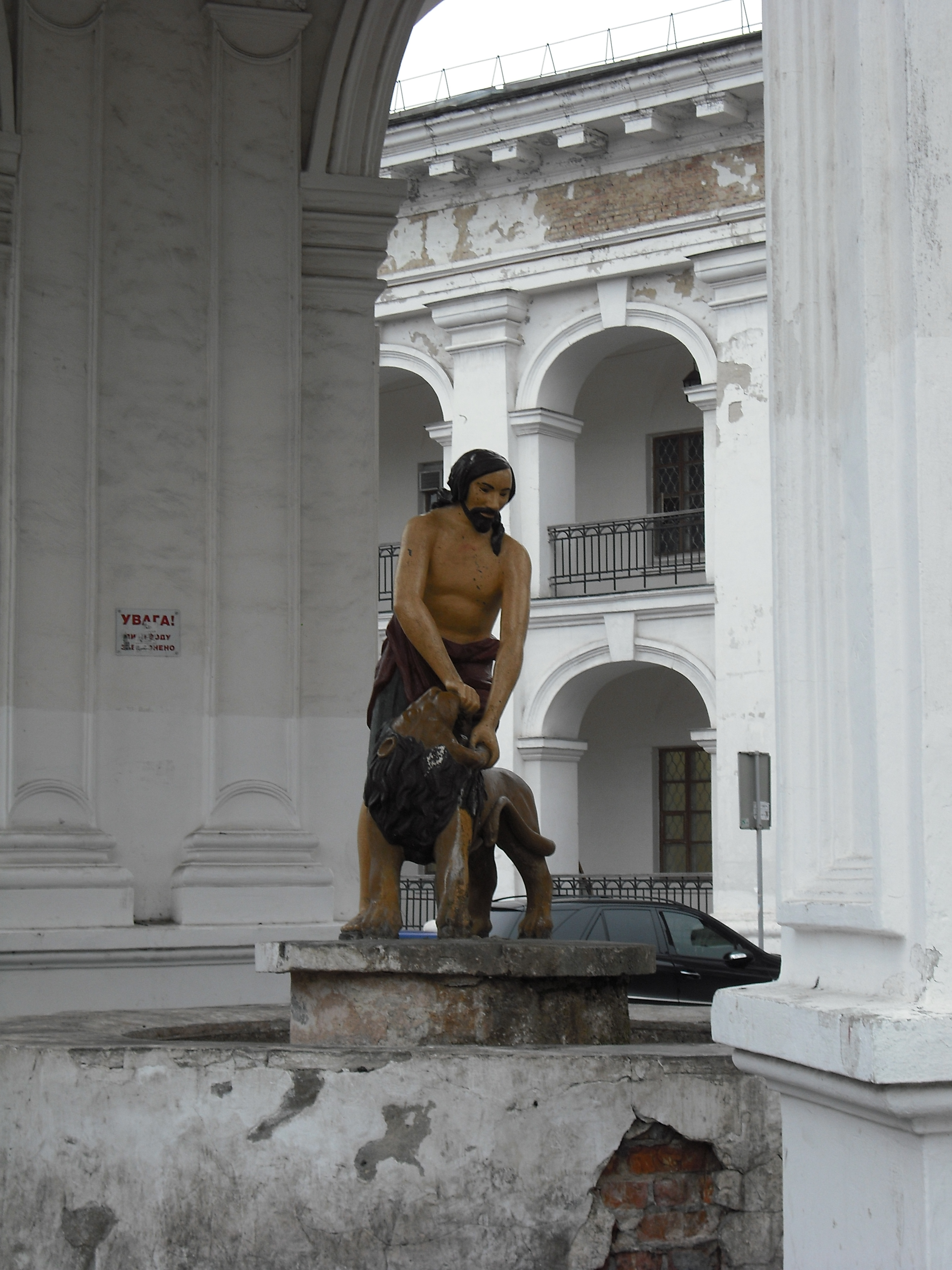 Kiev - Kontraktova Square - Samson Fountain